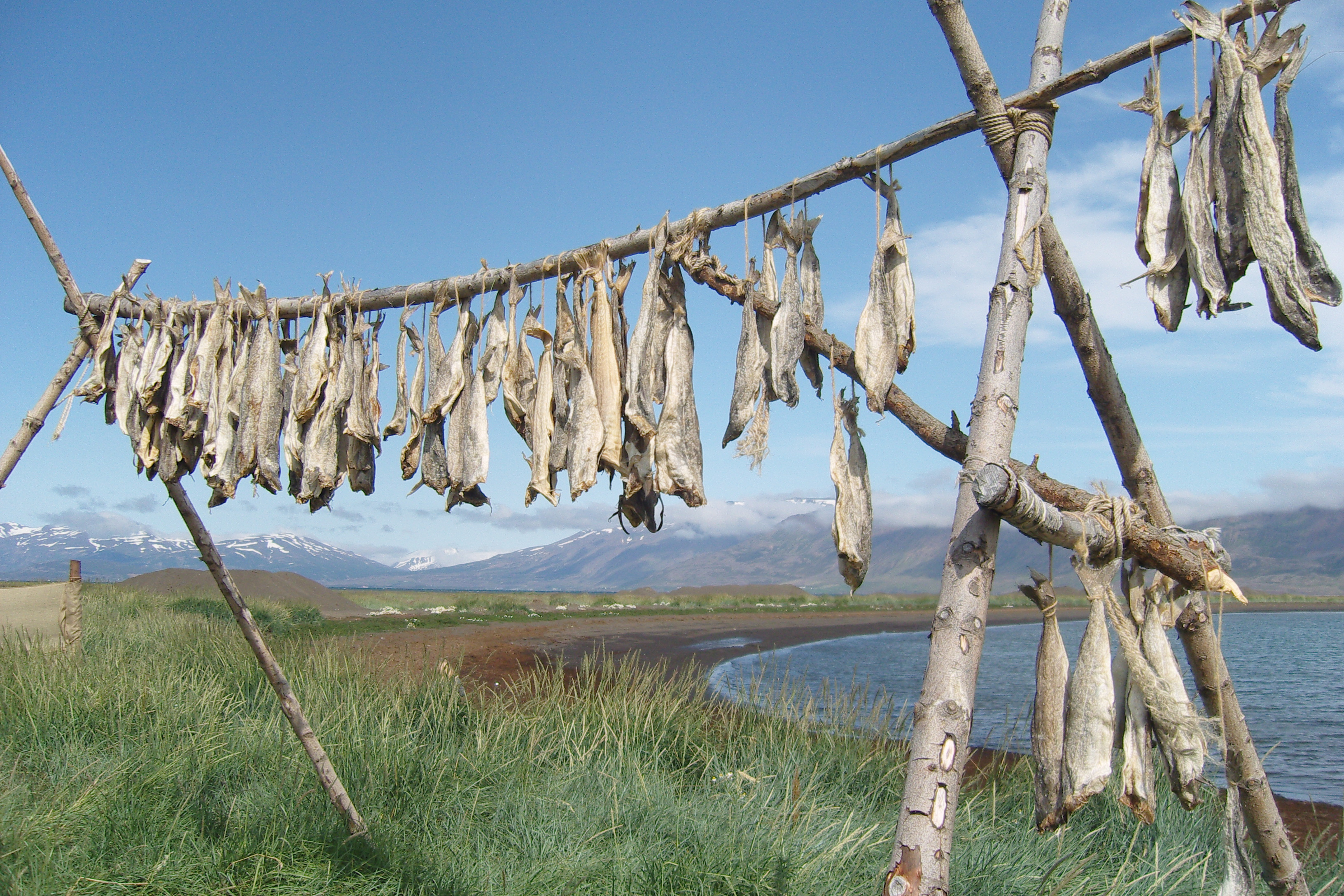 This how they used to make or maybe still make dryfish. Medieval days in Gásir ([1])